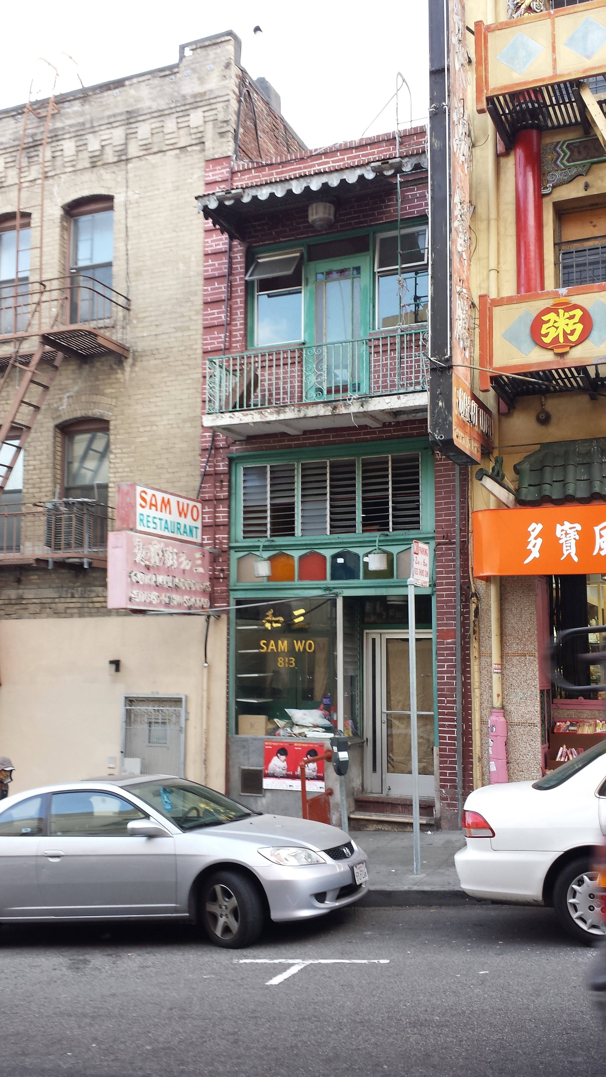 Sam Wo Restaurant, closed since 2012